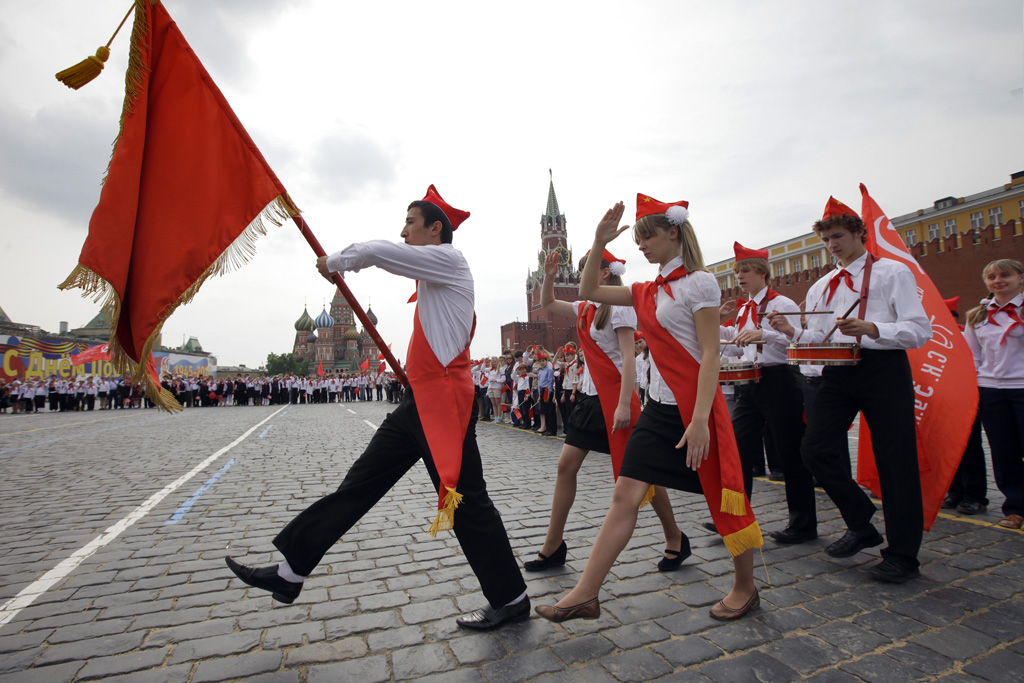 “Young Pioneer induction ceremony held at Moscow's Red Square”. Participants attending the Young Pioneer induction ceremony at Vladimir Lenin's Mausoleum on Moscow's Red Square.